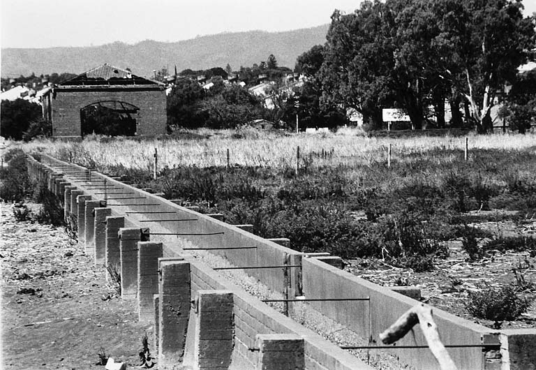 Sunnybrae Sewerage Farm sewer and straining shed pre 1960, today at Regency Park Description from Flickr: A main sewer, constructed of cement concrete, started from Frome Road and conveyed the sewage to the 470 acre farm, which it entered at a point 41 feet above sea, reducing to 28 feet at the northern end. All sewerage was strained before being distributed.